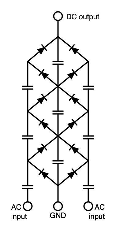 A circuit diagram for a full-wave Cockcroft-Walton generator.